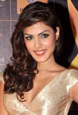 Rhea Chakraborty at Renault Star Guild Awards 2013